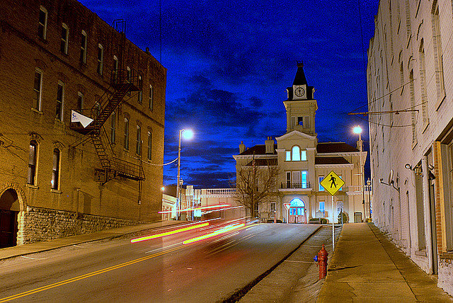 Columbia, Kentucky, United States, at Night